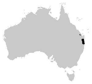 Distribution of the Pearson's Green Tree Frog, Litoria pearsoniana.